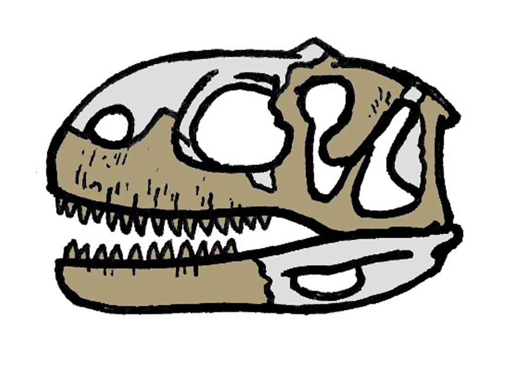 Skull of the theropod dinosaur Rajasaurus narmadensis from India, missing parts colored in grey. see also [1], [2], [3] and [4] to see referencematerial.